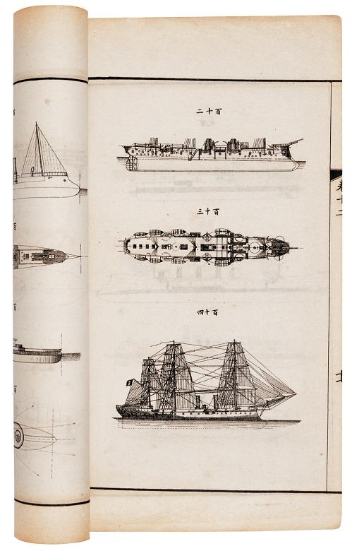 A photo of a page from Xu, Jingcheng. Wai Guo Shi Chuan Zhi: 8 Juan ; Za Shuo : 3 Juan ; Tu : 1 Juan. China: Zhejiang guan shu ju, 1896. Print.